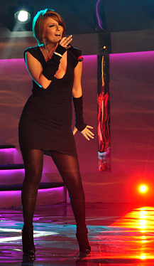 Rosela Gjylbegu performing at Kenga Magjike 2009